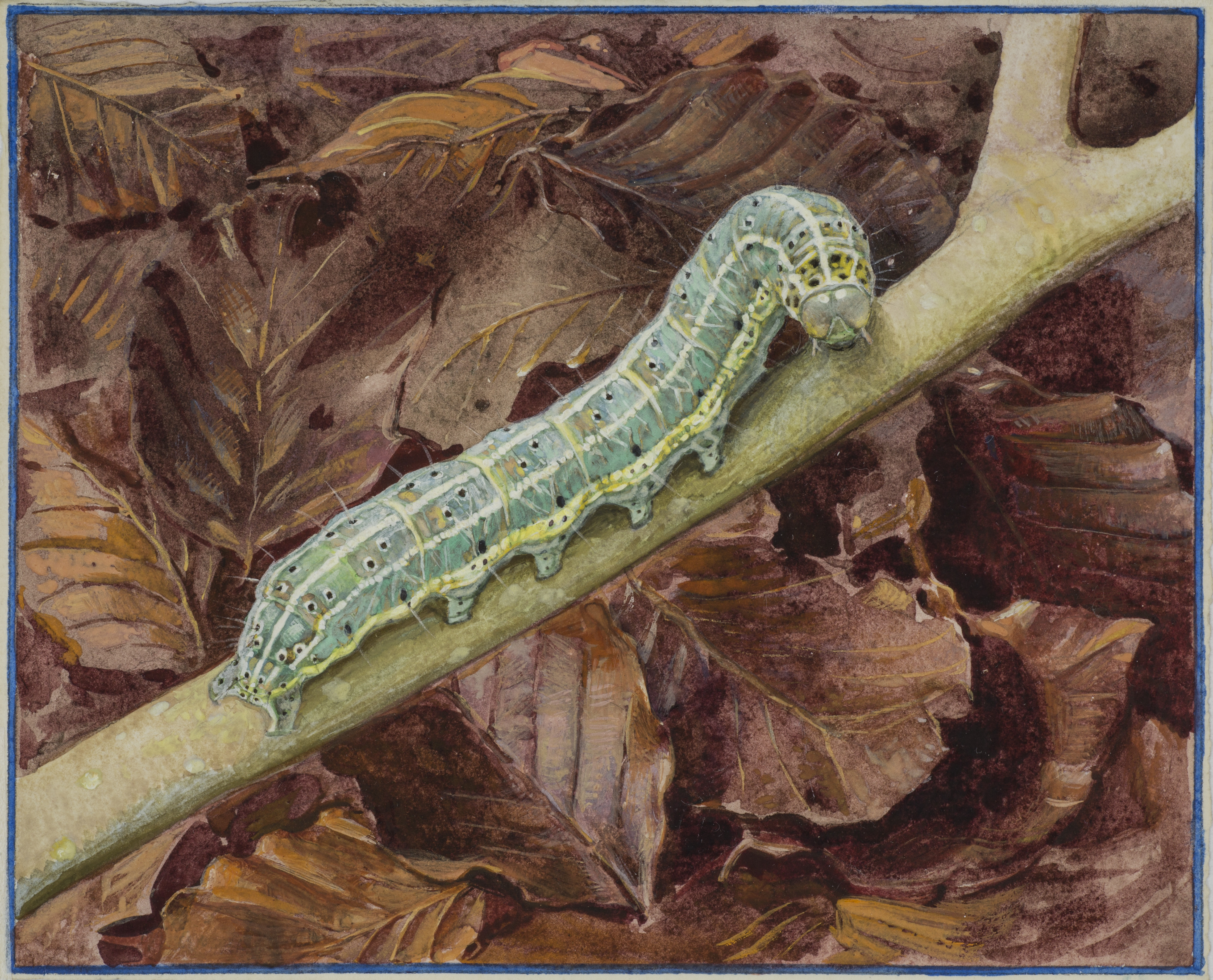 Caterpillar of the Dun-bar moth